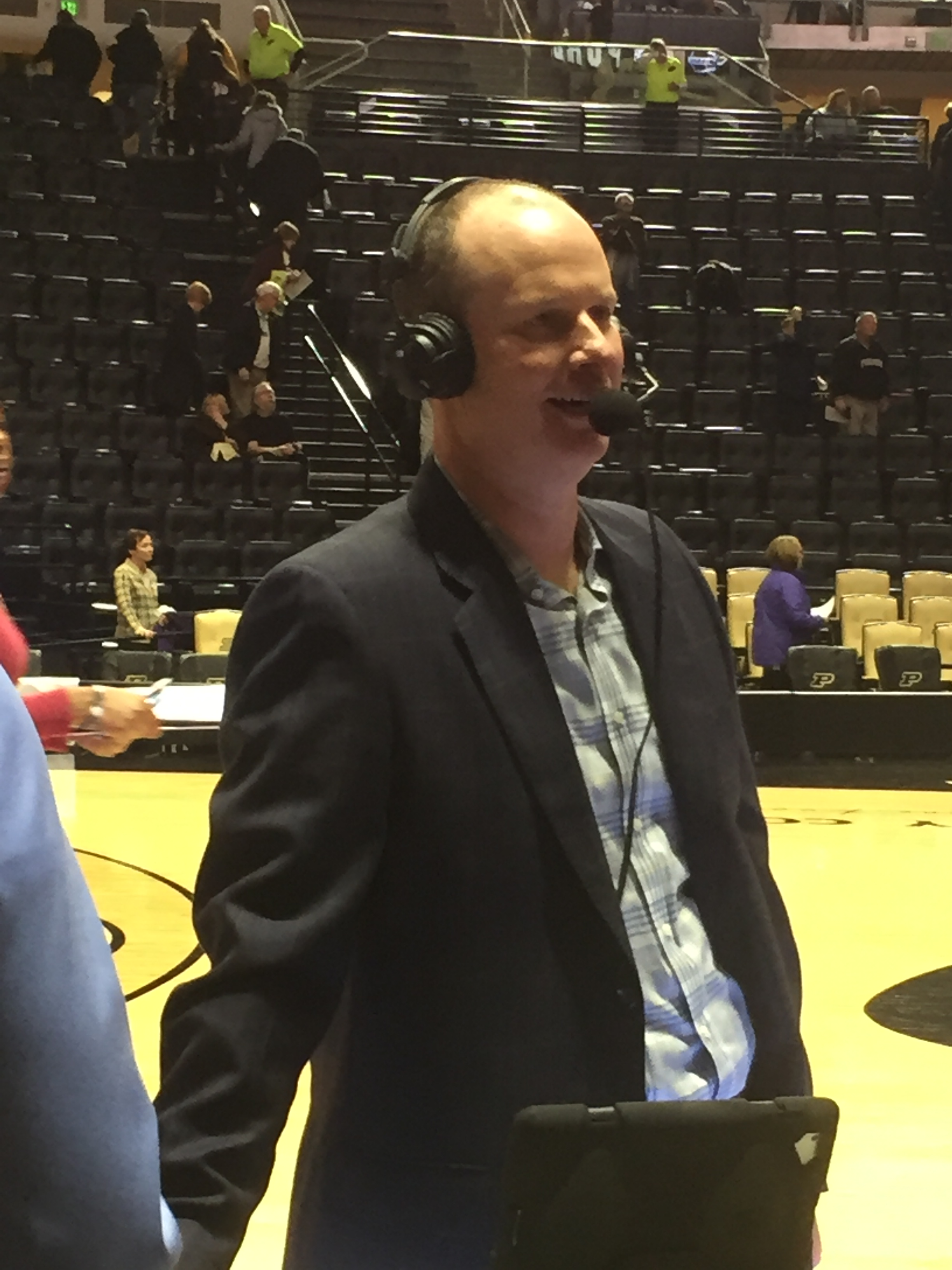 Ball State Women's Basketball Coach after a win at Purdue University